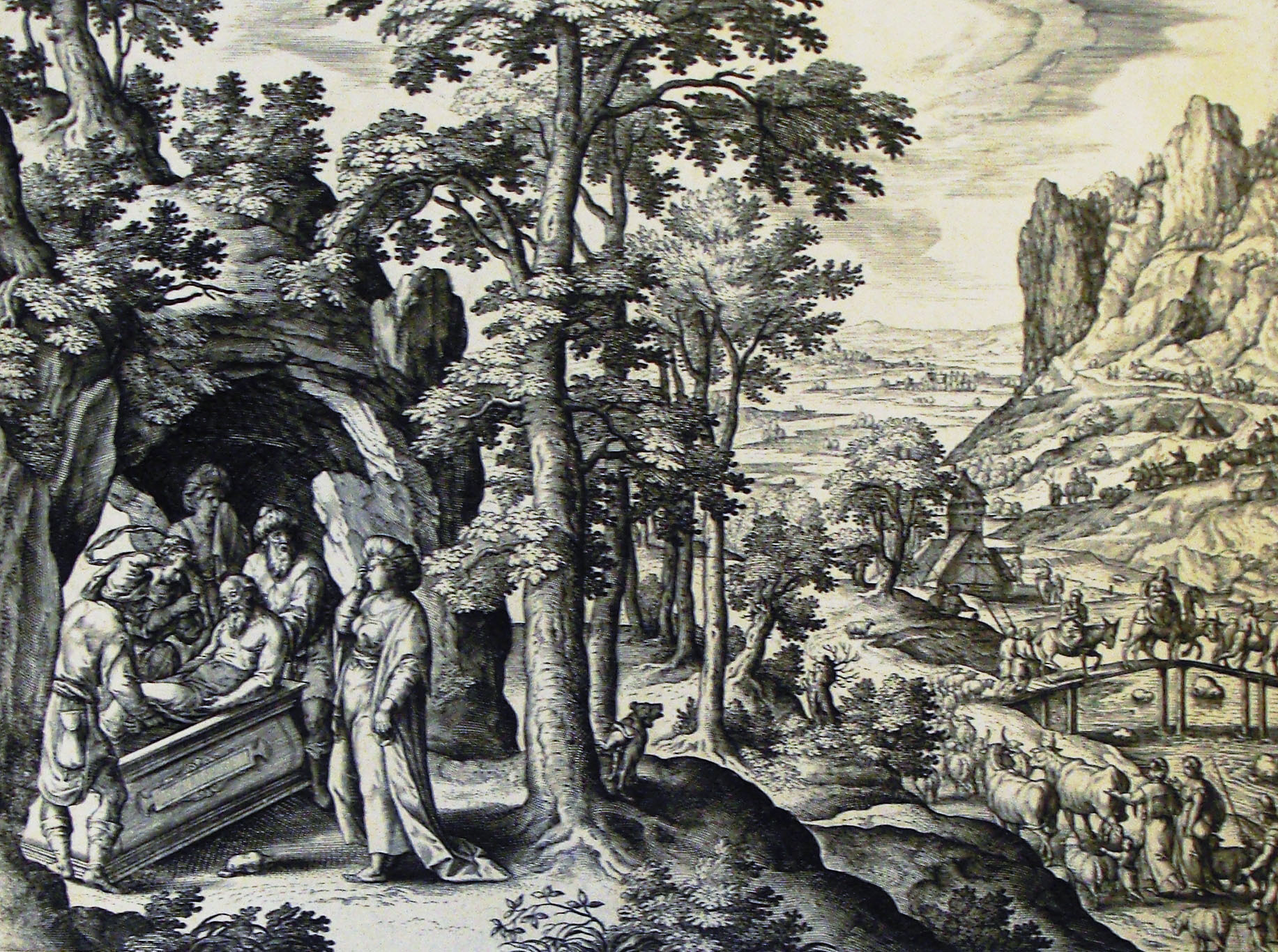 A print from the Phillip Medhurst Collection of Bible illustrations in the possession of Revd. Philip De Vere at St. George’s Court, Kidderminster, England.